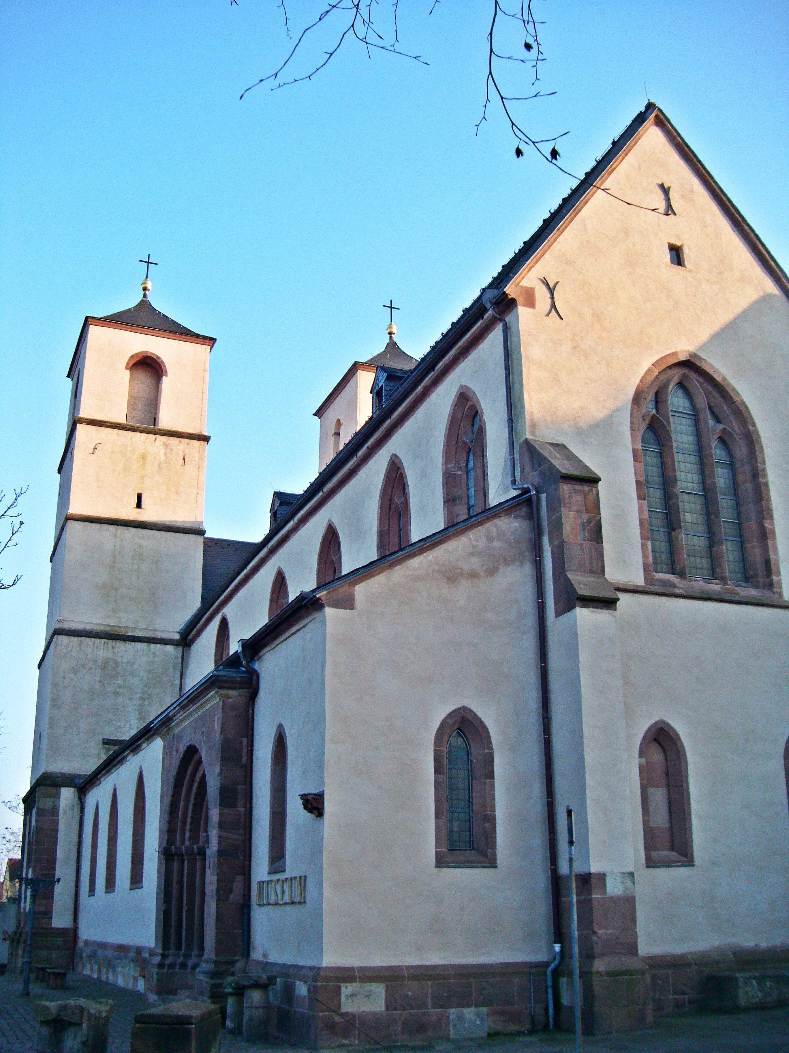 Profanierte Kirche St. Andreas, Worms (Stadtmuseum)